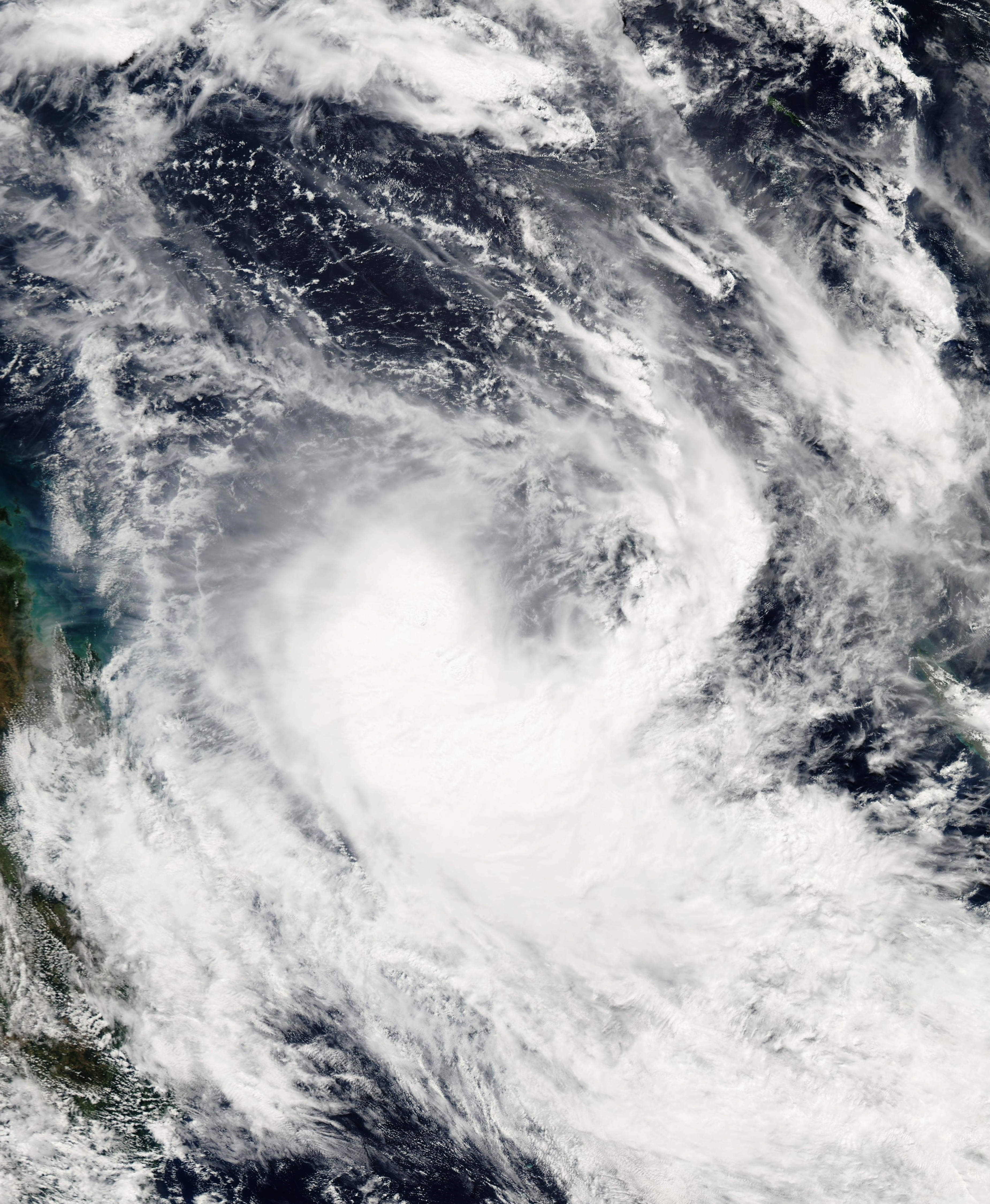 The MODIS instrument onboard NASA's Aqua spacecraft captured this true-color image of Tropical Cyclone Grace 500 miles east of Mackay and moving to the southeast. According to the Brisbane Weather Bureau, Graces's low pressure was acting alongside a high pressure system over Tasmania resulting in a steep pressure gradient causing gale force winds and high seas along the Queensland coast.